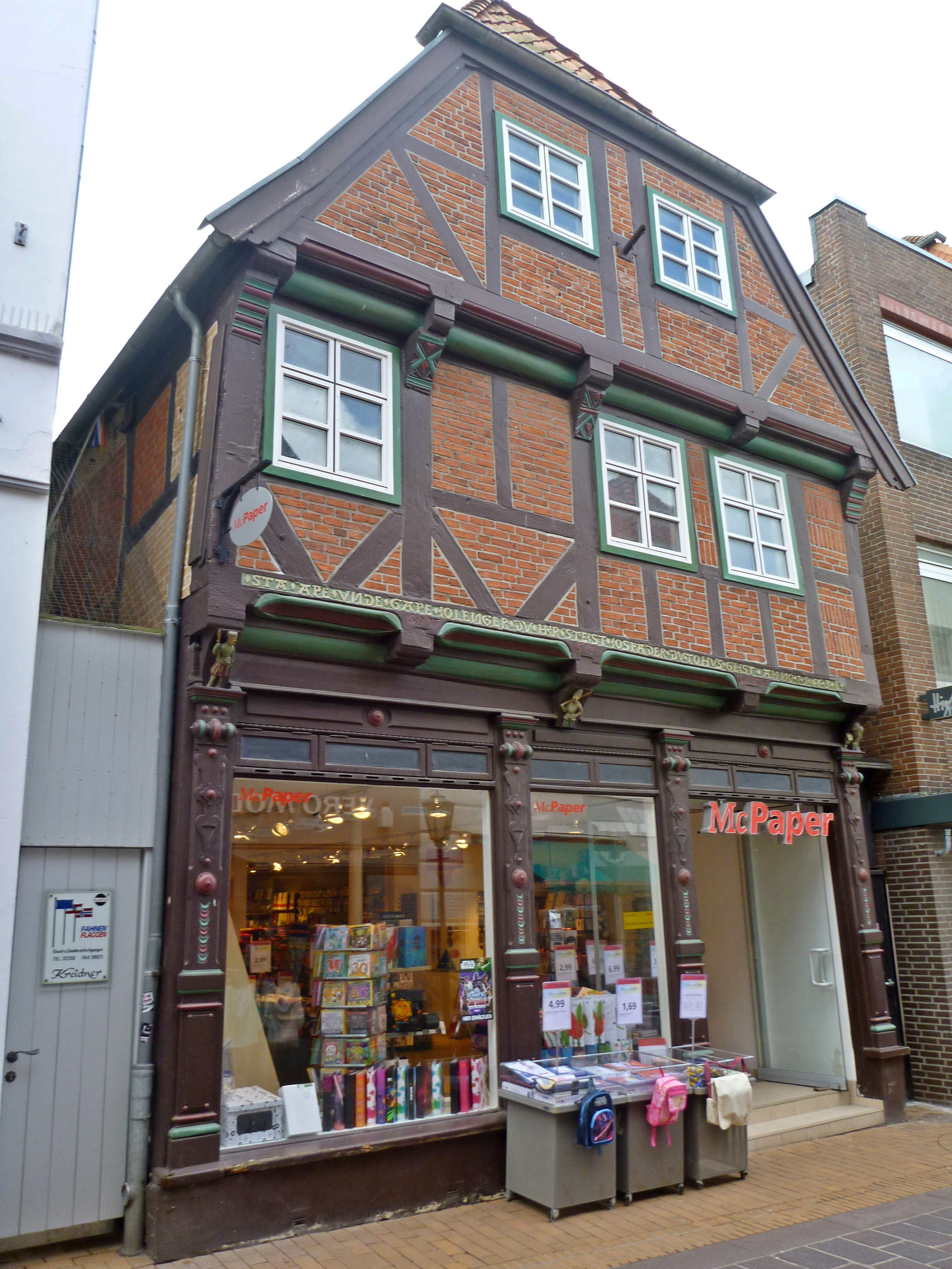 Building with shop, preservation sites of historic interest in Hohe Straße 7